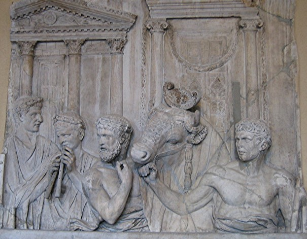 Preparation of a sacrifice. Marble, fragment of an architectural relief, first quarter of the 2nd century AD.